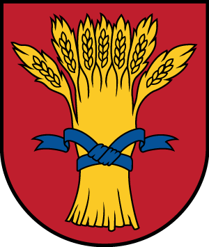 Coat of arms of Rūjiena Municipality, Latvia.